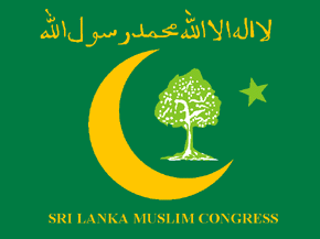 Flag of the Sri Lanka Muslim Congress සිංහල: sri ලංකා muslim කොංග්‍රසය කොඩිය